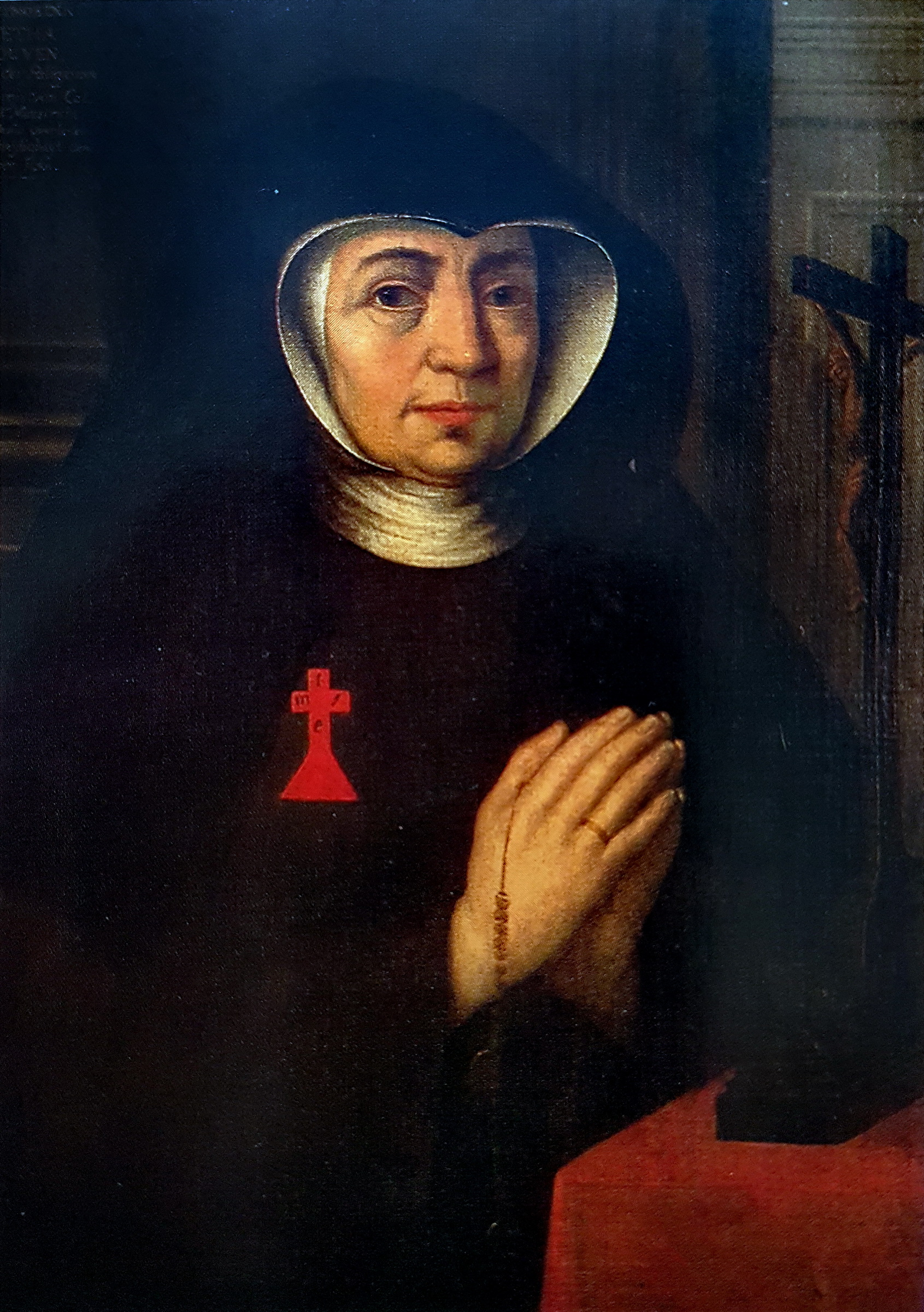 A posthumous, probably 18th-century portrait of Elisabeth Strouven (1600-1661), foundress of Mount Calvary Monastery (Klooster Calvariënberg) in Maastricht, the Netherlands. The religious habit she is wearing was only introduced after 1718.